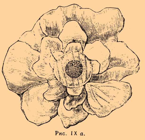 Illustration from Brockhaus and Efron Encyclopedic Dictionary (1890—1907)